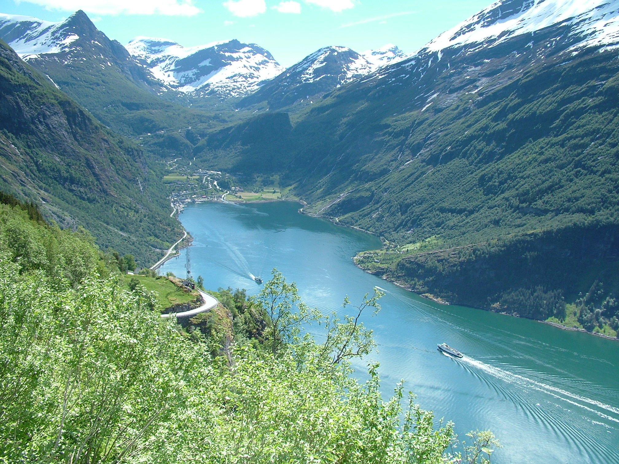 Photograph by Michael David Hill, 2005.